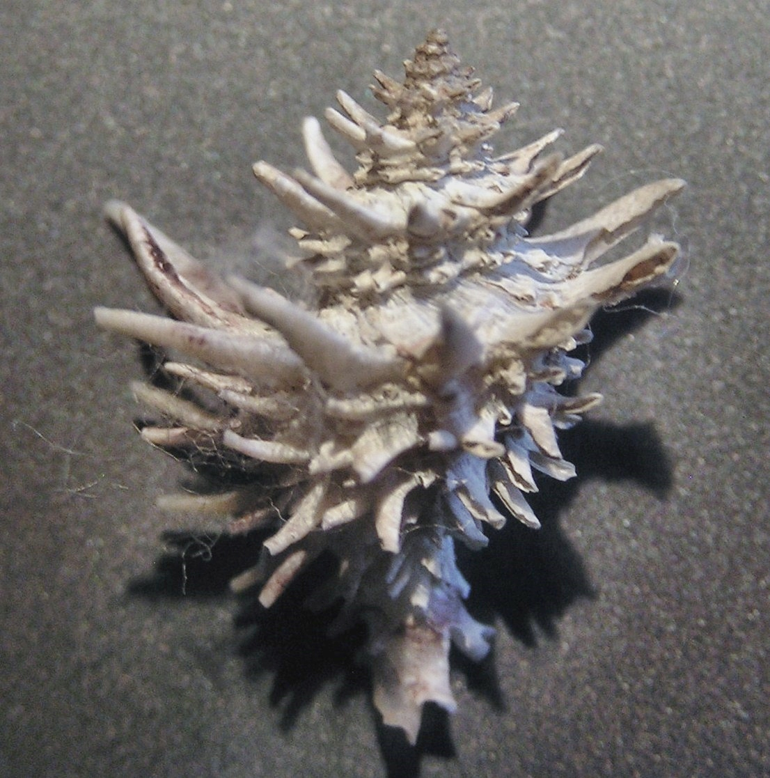 Babelomurex wormaldi (synonym : Latiaxis wormaldi) (A. W. B. Powell, 1971), a coral snail in the family Muricidae; Philippines